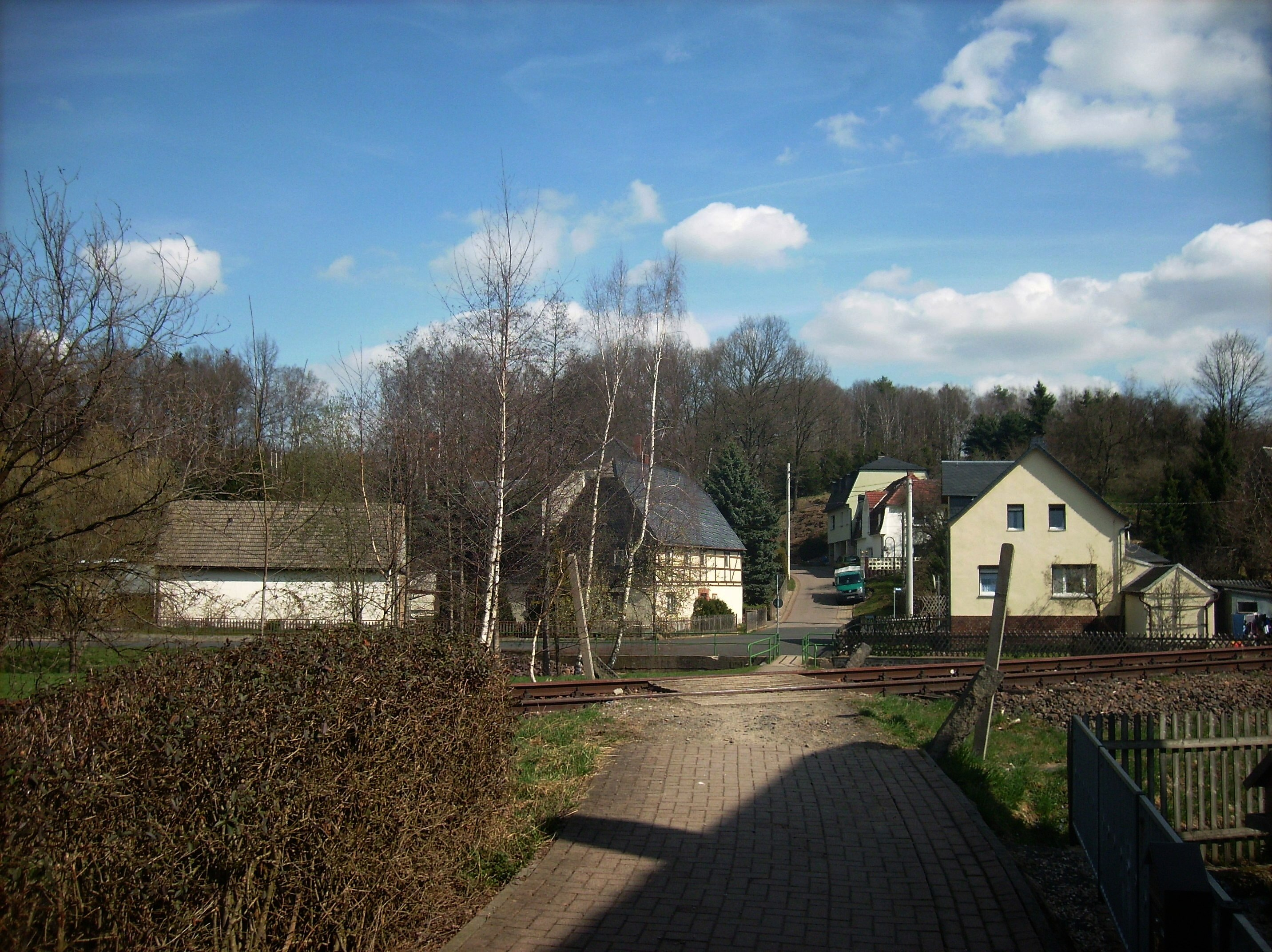 Former level crossing of the Waldheim–Rochlitz railway line in Döhlen (Seelitz, Mittelsachsen district, Saxony)